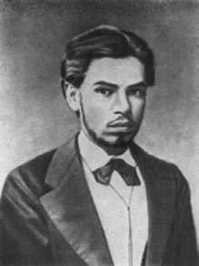 Aleksandr Lyapunov in 1876